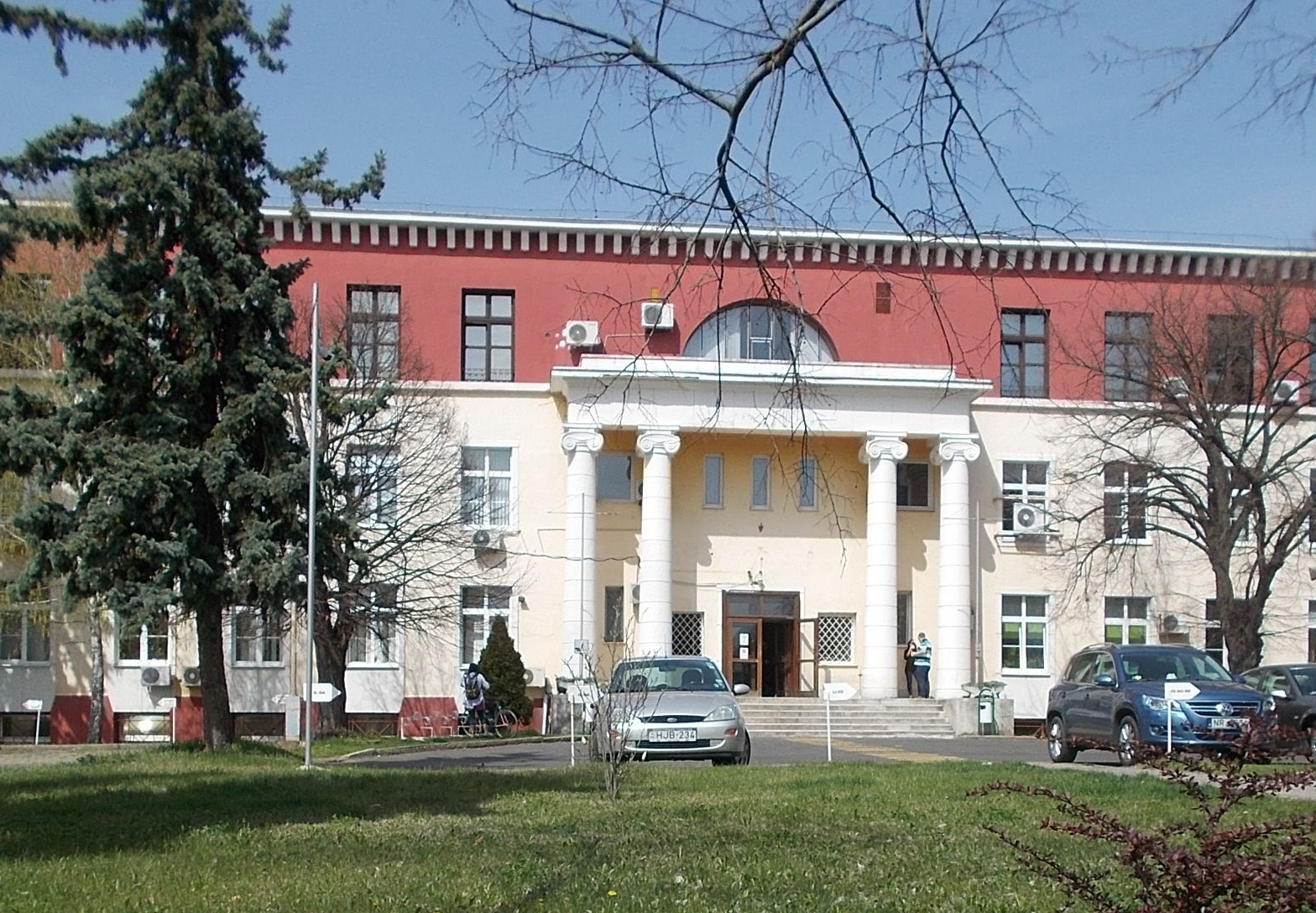 EMG Industrial park, EMG office building - 26-32 Cziráky street, Sashalom neighborhood, 16th district, Budapest.